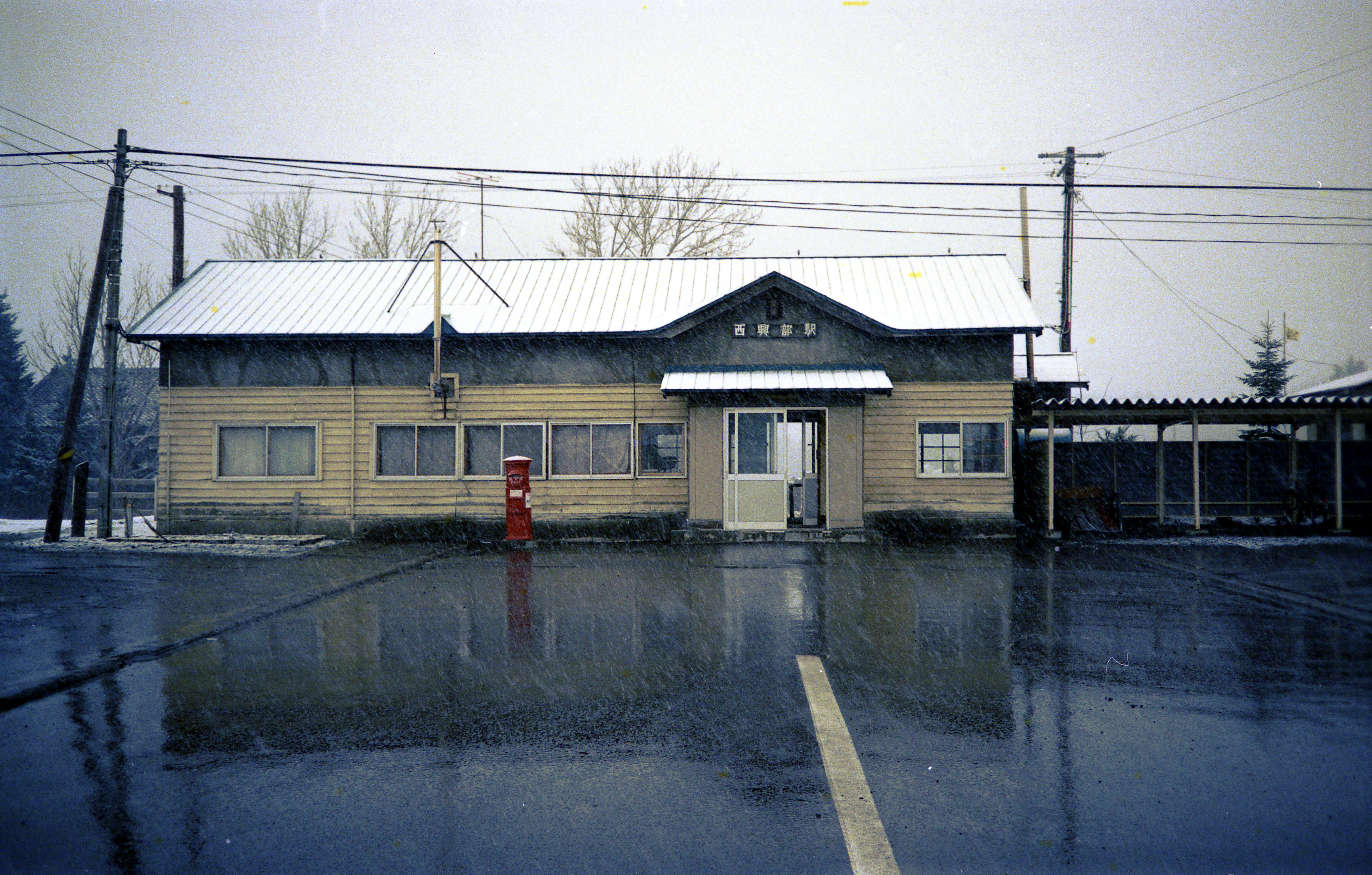 The building of Nishiokoppe Station,Hokkaido Railway Company Nayoro Main Line(before abolished)